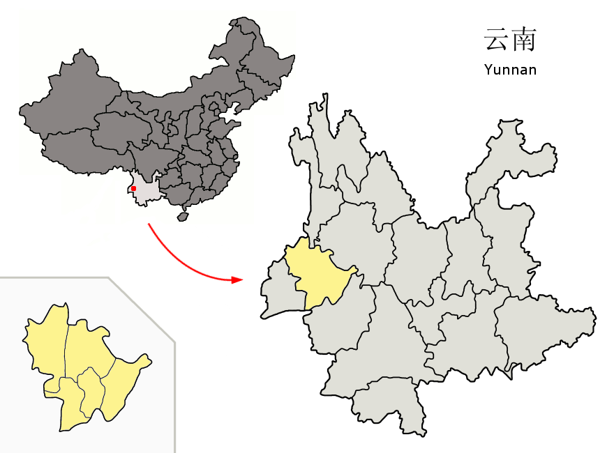 Location of Baoshan Prefecture (yellow) within Yunnan province of China Map drawn in september 2007 using various sources, mainly : Yunnan province administrative regions GIS data: 1:1M, County level, 1990 Yunnan Counties map from